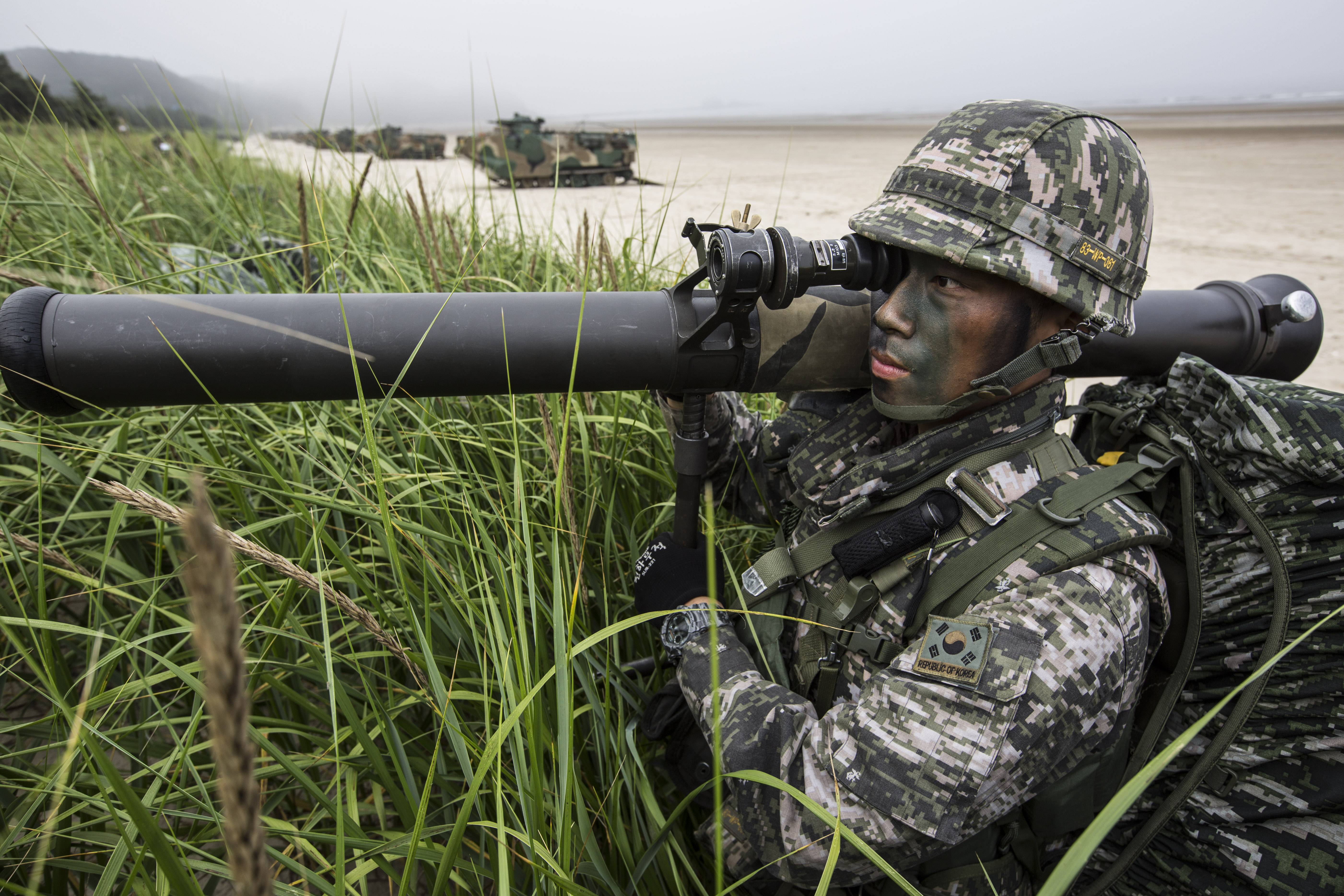 2015.6.29. 해병대 2사단 - 양혁준 병장의 해병대 사랑 29th, June, 2015 ROK 2nd Mar.Div-Sgt, Yang's love for ROKMC